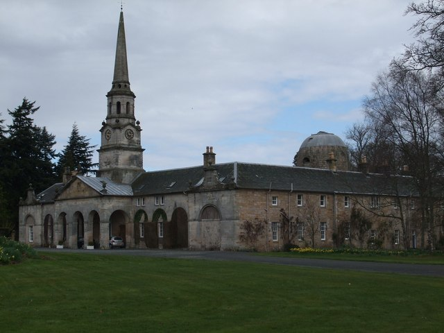 Penicuik House This estate has been owned by the Clerks of Penicuik for several centuries. A family that has played a prominent role in Scottish history. When the palladian mansion was destroyed by fire over a century ago the stables block was converted to their home. The prominent domed doocot is a copy of 'Arthurs O'on' (0ven), a Roman temple which once stood near Falkirk.